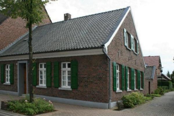 Cultural heritage monument No. 262 in Kempen